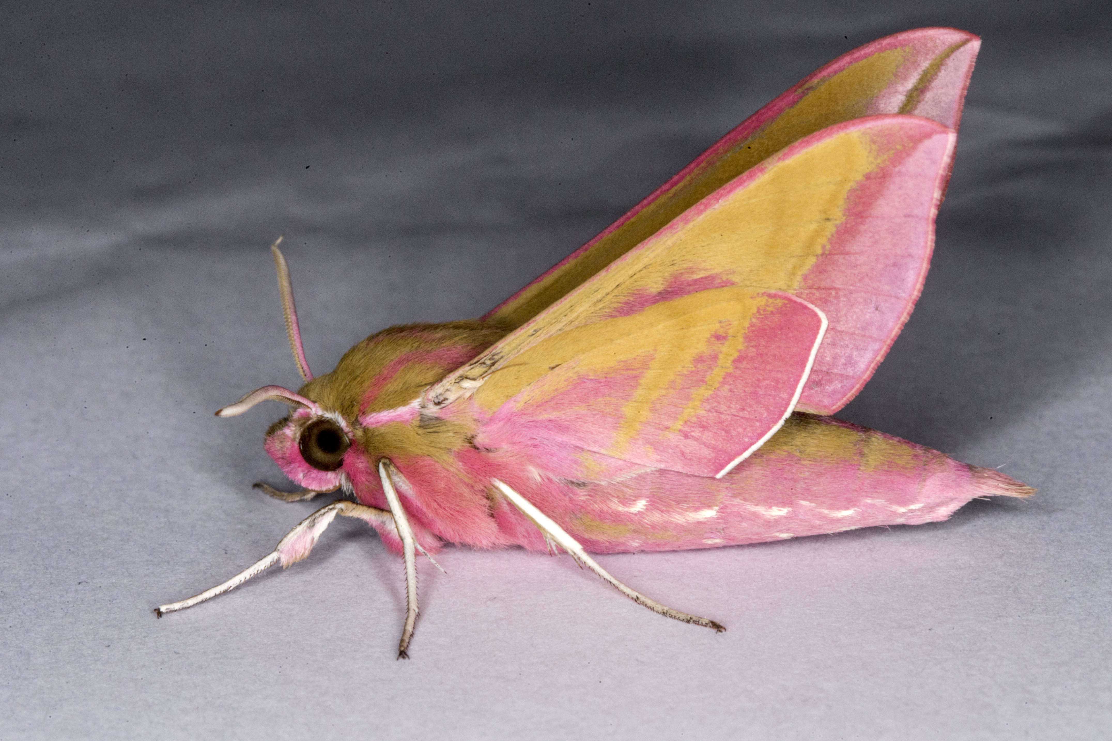 Deilephila elpenor The elephant hawk-moth, Lodz(Poland)